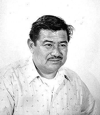 Description from the National Archives: Fisher, McKinley, a Chemehuevi employed by the Indian Service at Colorado Agency